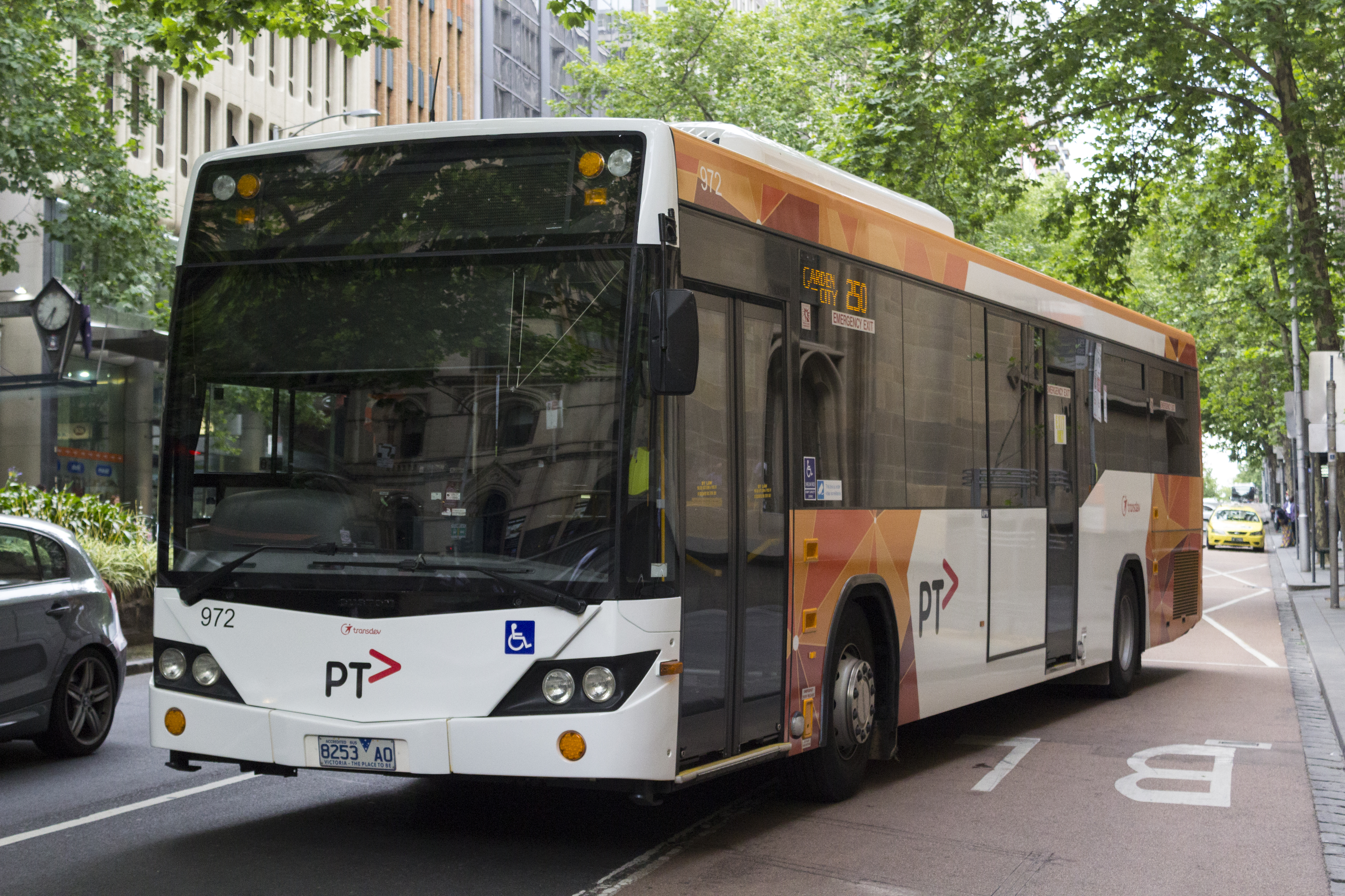 Transdev Melbourne number 972 (8253AO) Custom Coaches "CB60 Evo II" bodied Scania K230UB in Public Transport Victoria livery on route 250 in Queen St, December 2013